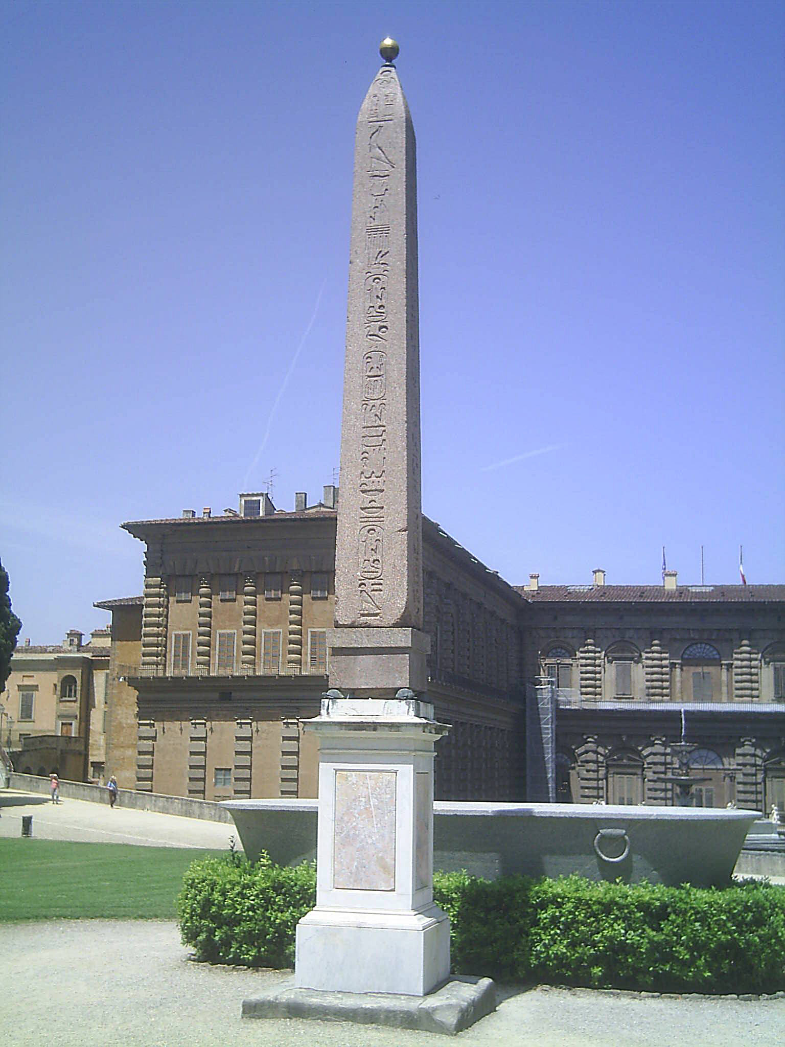 The obelisk in the Boboli Garden (Florence, Italy).